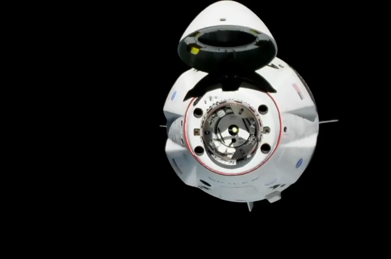 SpaceX's Crew Dragon approaches the International Space Station with nosecone retracted, exposing its docking mechanism.